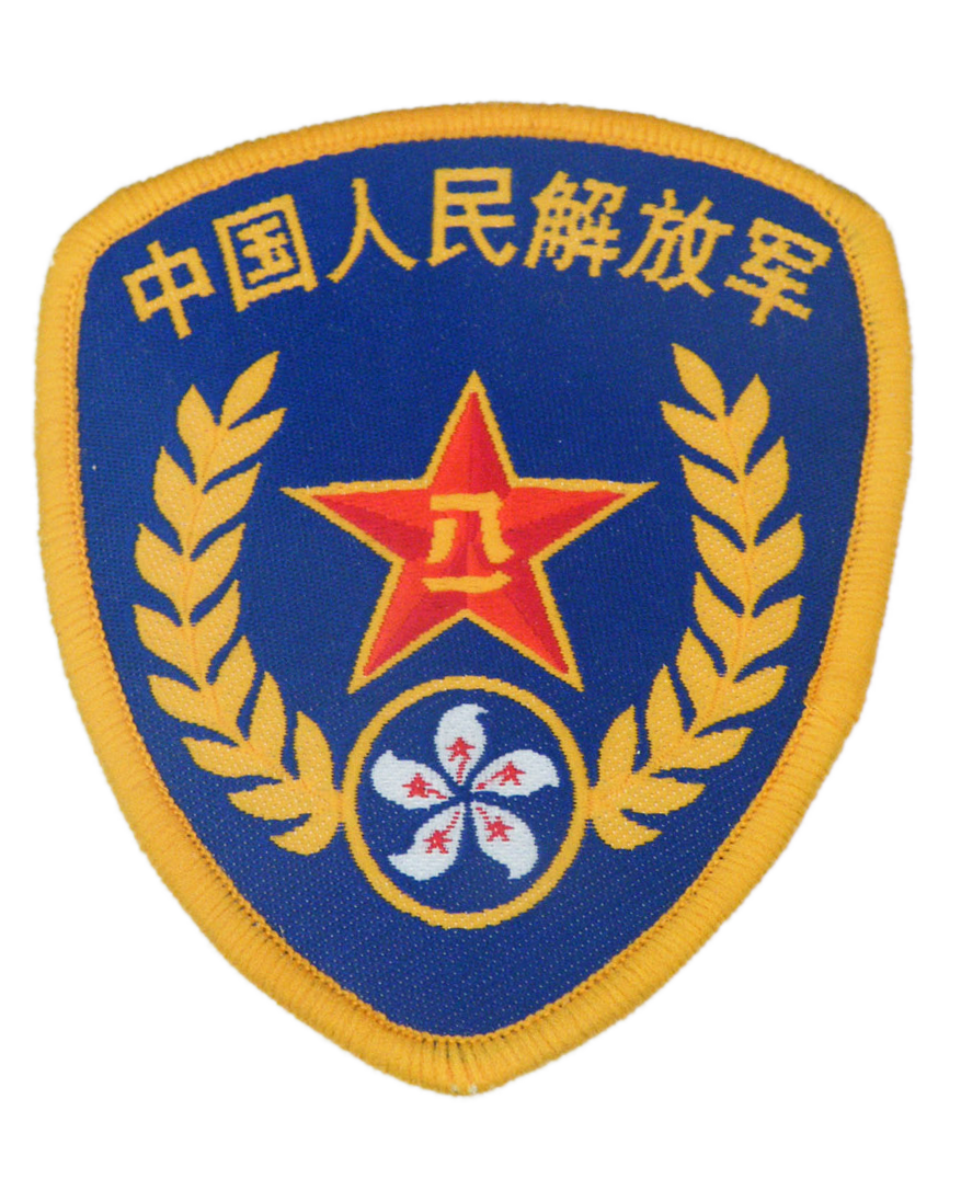 People's Liberation Army Hong Kong Garrison 1997-2007 arm badge